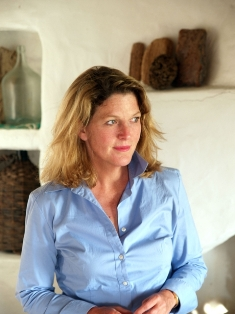 Professor Joan Breton Connelly in the dig house of the Yeronisos Island Excavation.